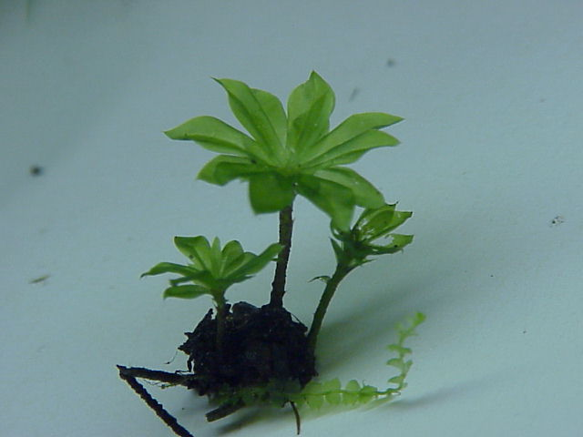 Species: Rhodobryum roseum Family: ' Image No. 2